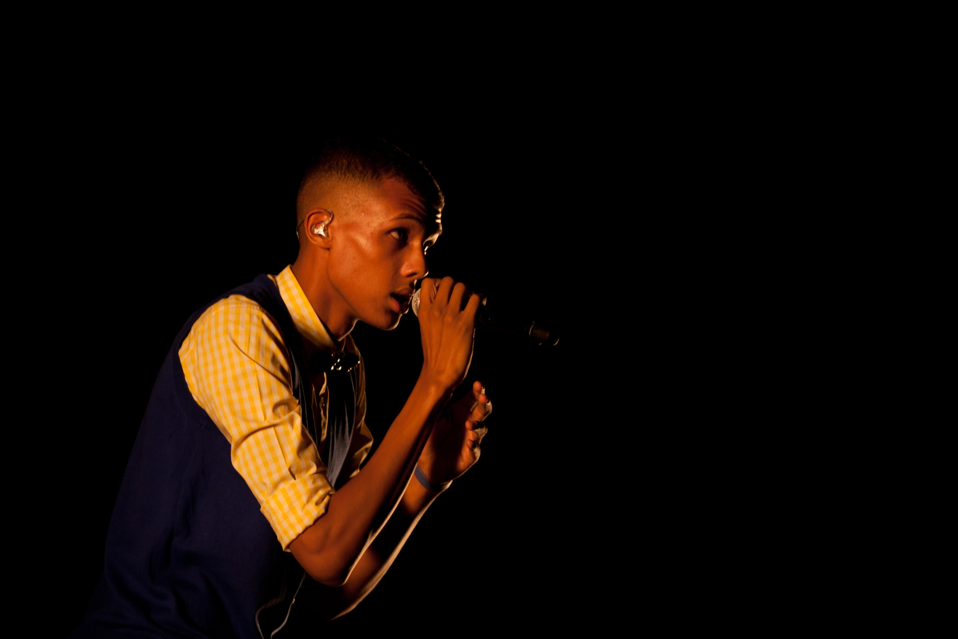 Follow me on facebook Twitter : @didyPhotography All the photographies I've made are now under CC0 (Creative Commons Zero) CC0 - learn more To the extent possible under law, Eddy BERTHIER has waived all copyright and related or neighboring rights to Stromae @ BSF 2011. This work is published from: France.